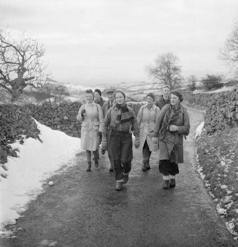 Youth Hostel- the work of the Youth Hostel Association in Wartime, Malham, Yorkshire, England, UK, 1944 A small hiking party, who have been staying at the Youth Hostel in Malham, set off along a country lane towards Wharfedale. There is snow on the ground along the edge of the road and on the fields which are visible in the background.